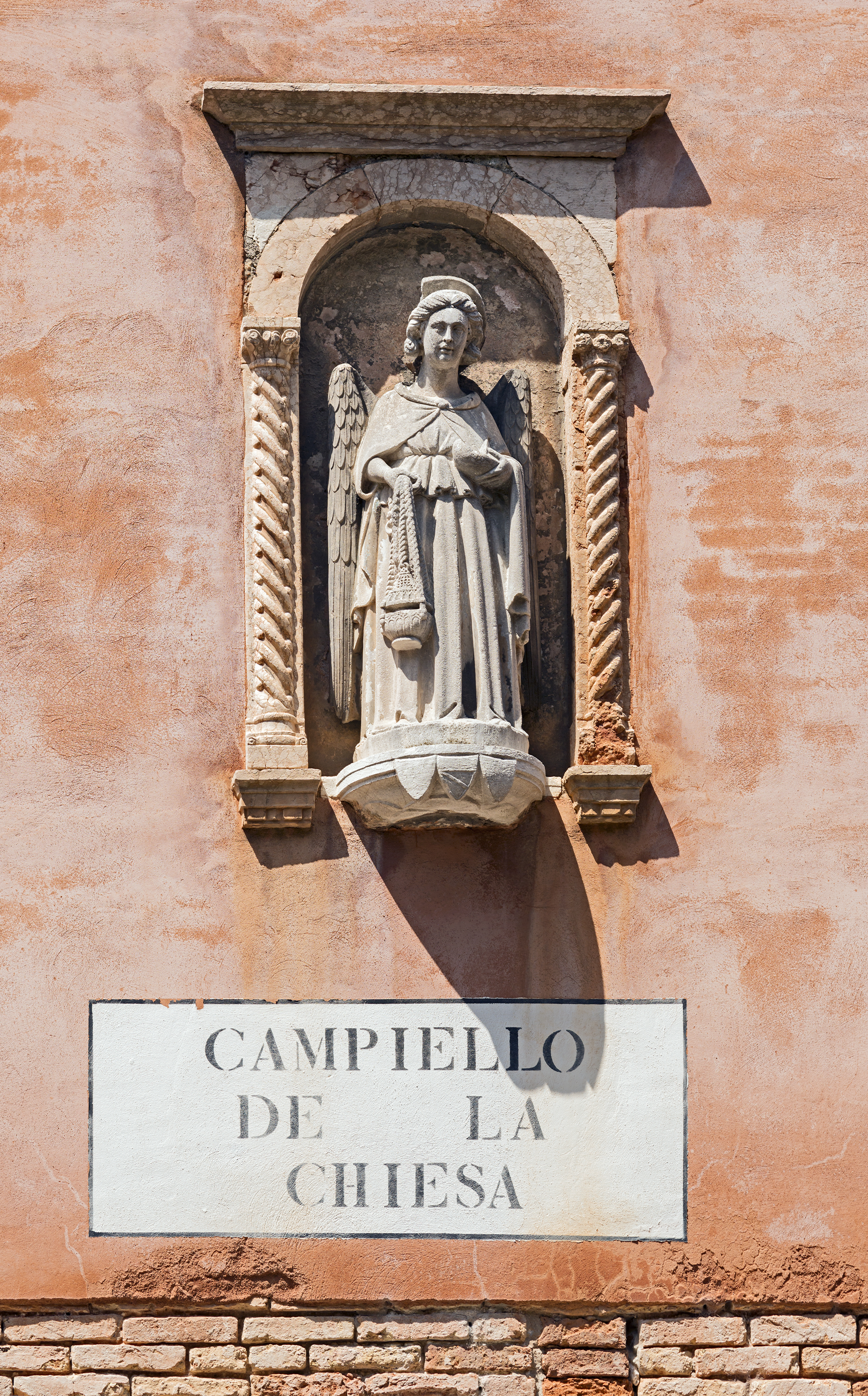 Church of Santa Fosca bell tower in Venice. Statue of an Angel thurifer thirteenth century behind the apse of the church.